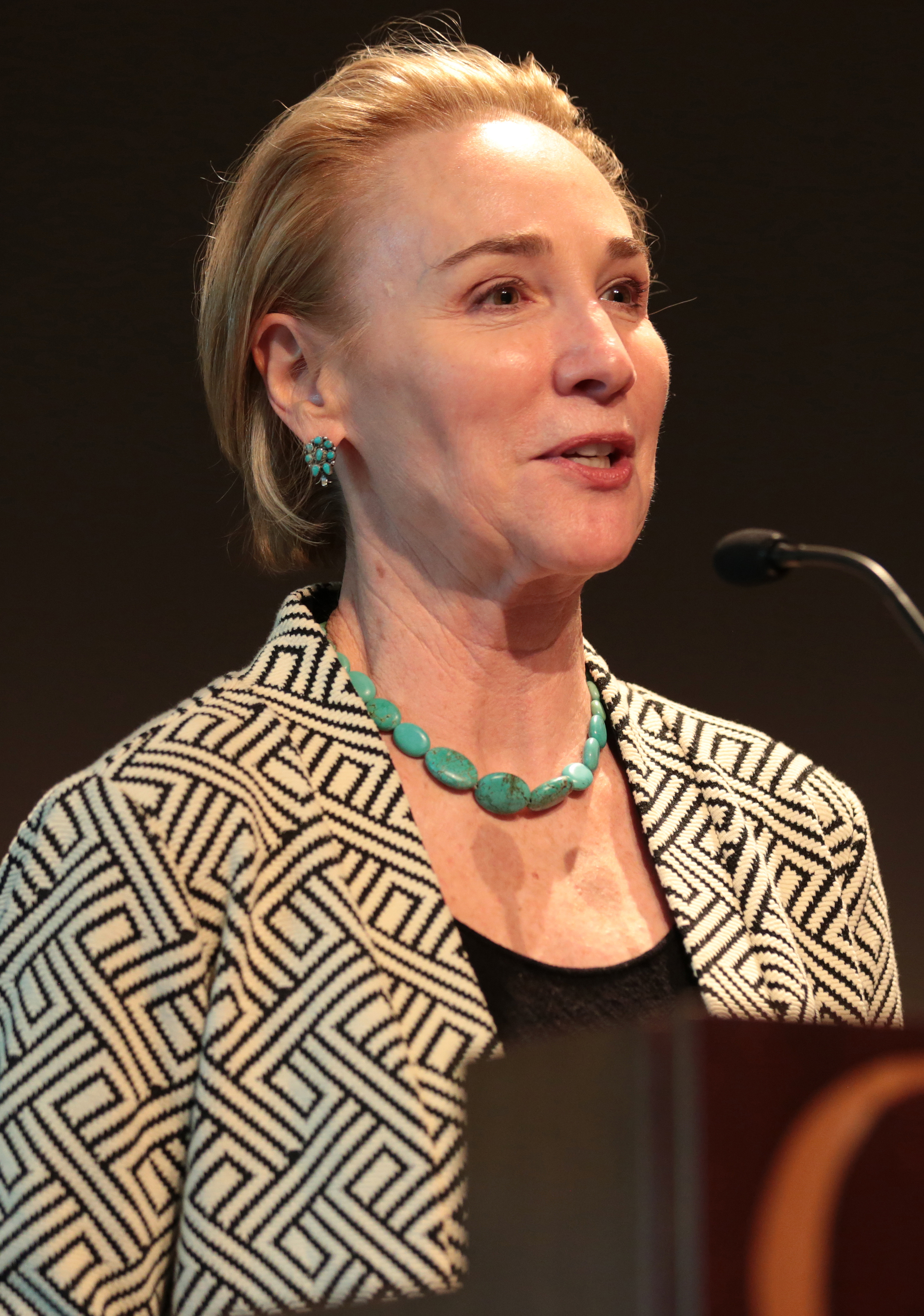 Mary Mazur speaking at an event in Phoenix, Arizona